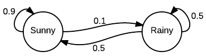 A directed oriented graph on which the transition arrows have probabilities.